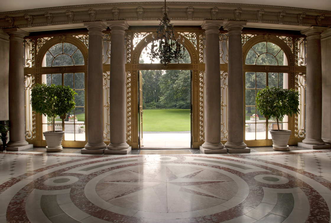 Inside the U.S. Ambassador's residence in Prague — view of the garden from the spacious winter garden with electrically-operated glass terrace walls that float into the basement.